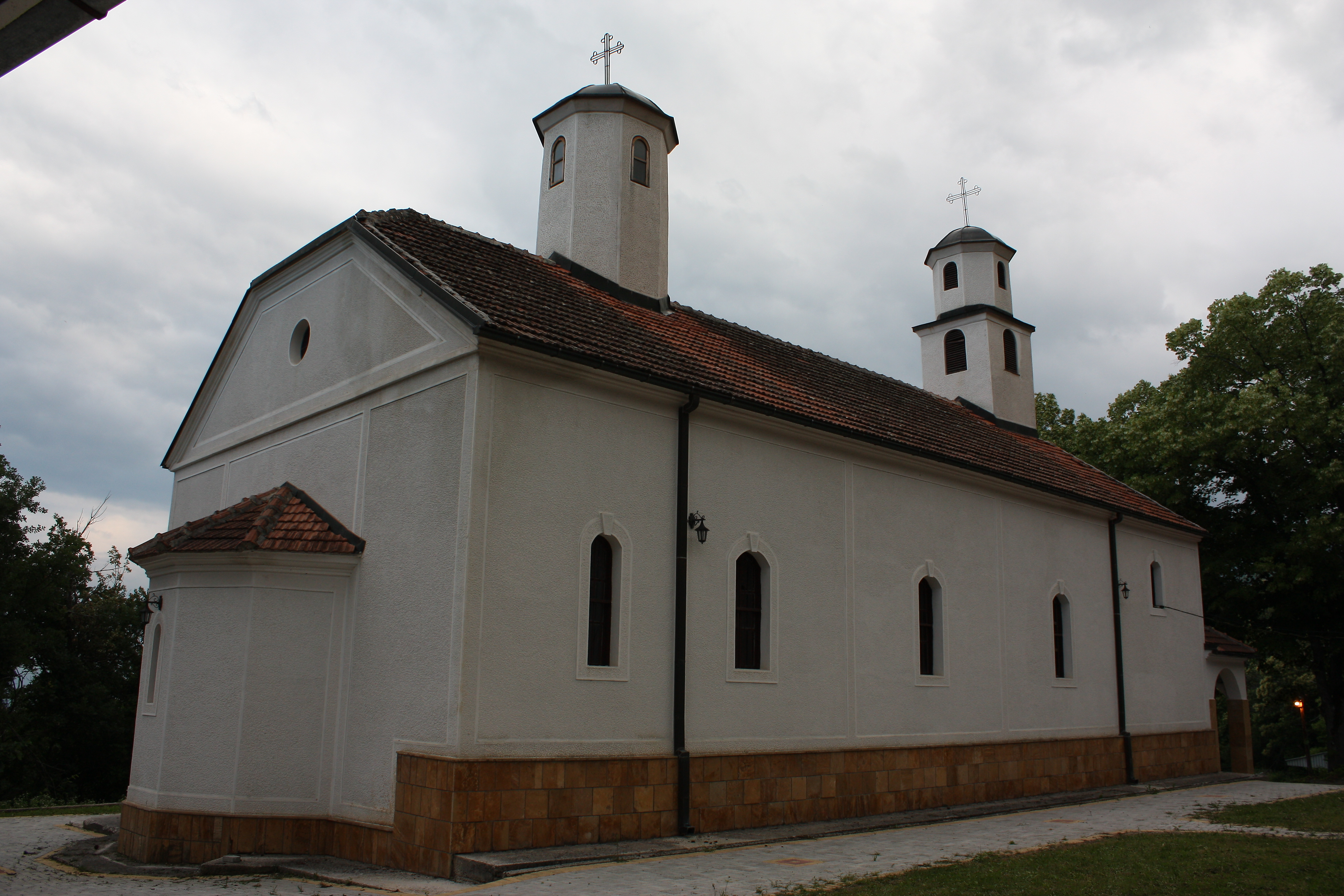 St. Petka Church in Vratnica, Macedonia